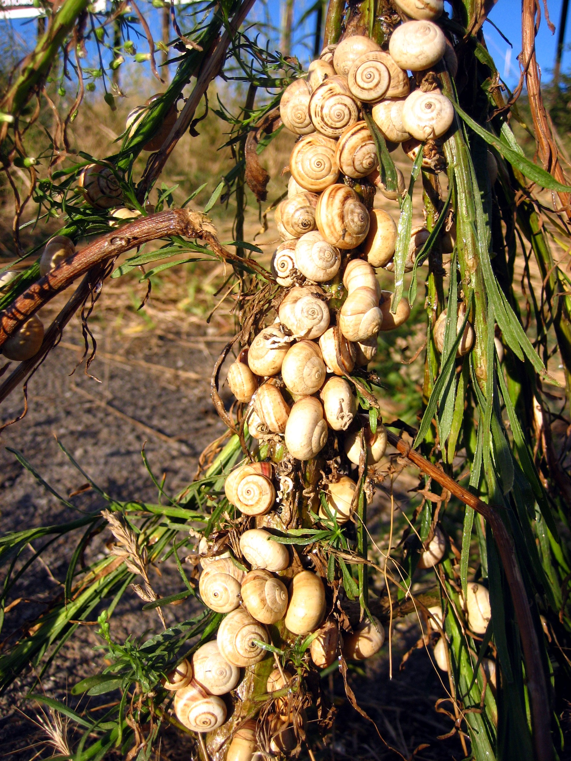 Theba pisana, Terrassa, Barcelona, Spain